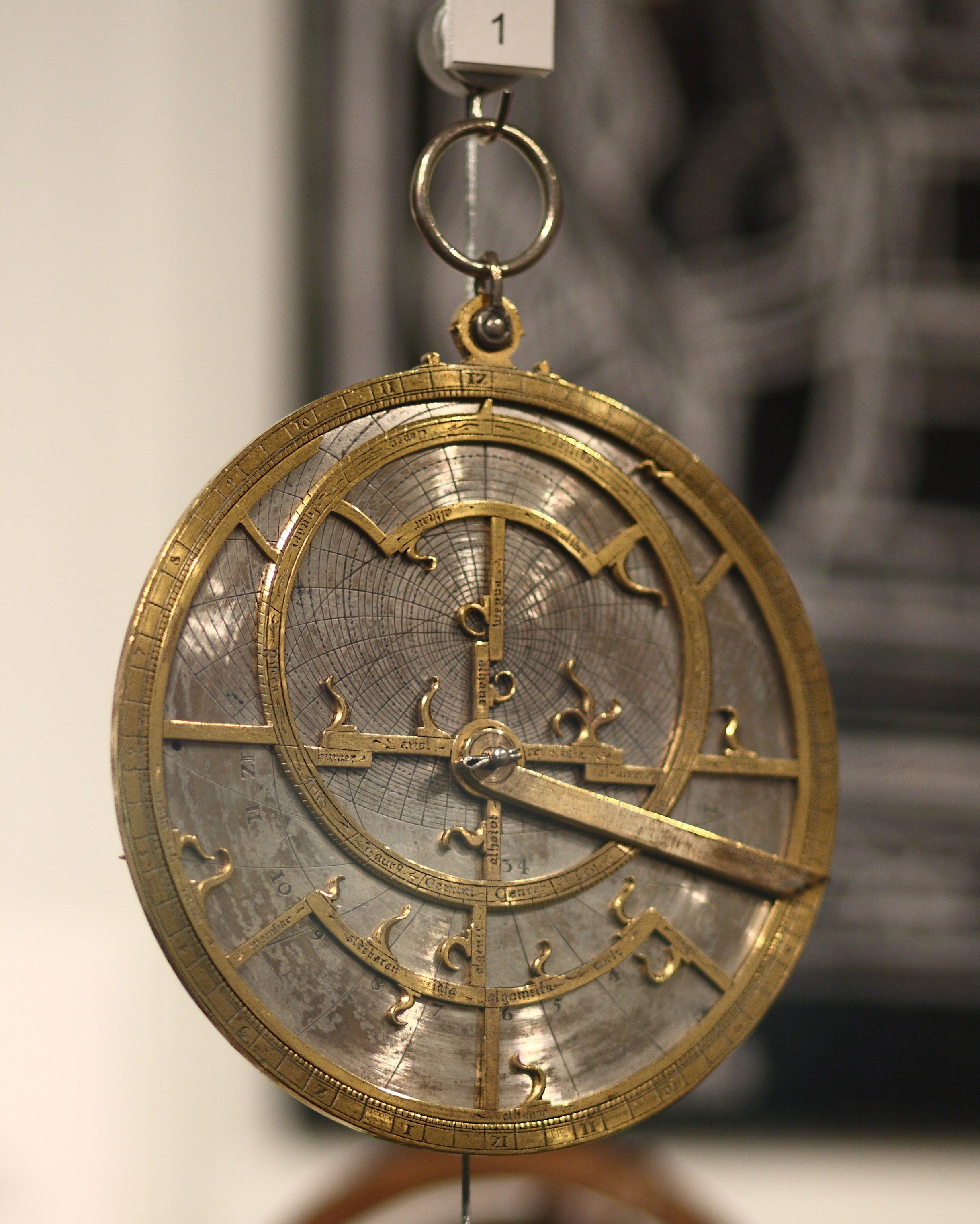 A planispheric astrolabe from the workshop of Jean Fusoris in Paris circa 1400, on display at the Putnam Gallery in the Harvard Science Center